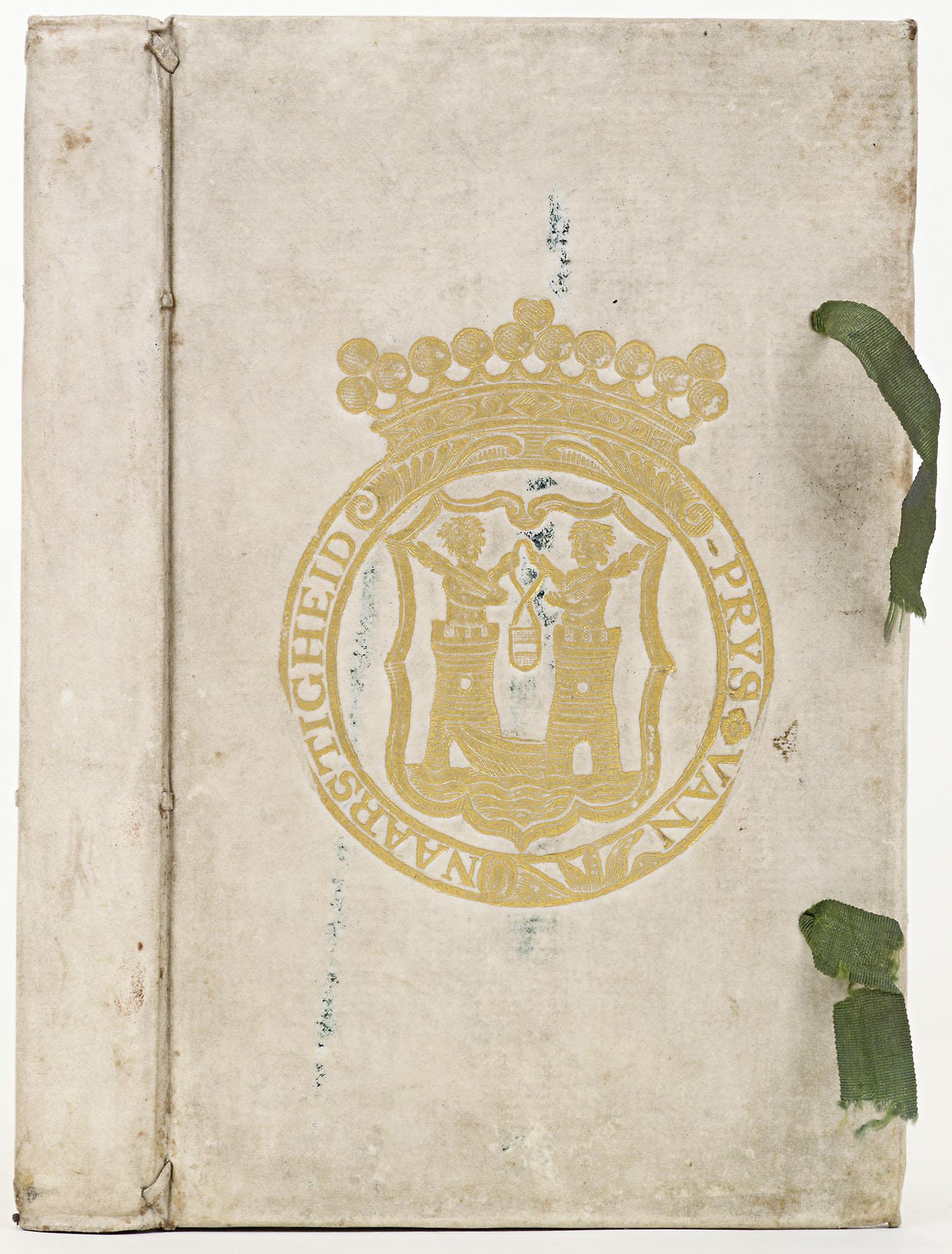 Book cover - Petit catechisme de la nature by J.F. Martinet 1780 - Band van blank perkament. Prijsband Veere.. Europeana. Retrieved on 2014-04-01.